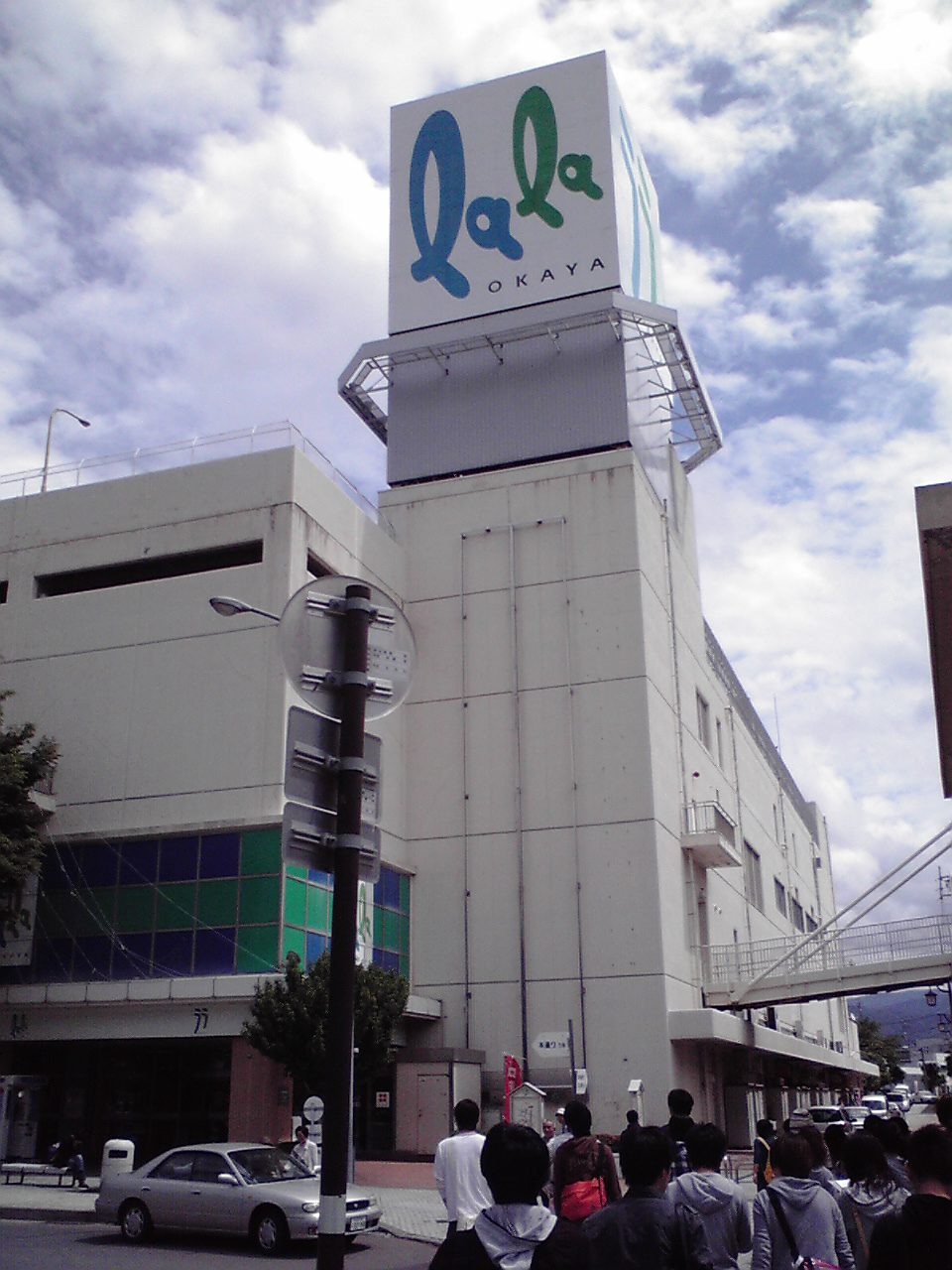 This is a big shopping building in Okaya,Nagano,Japan.